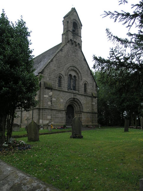 Holy Trinity Church. This small church in Anslow is dedicated to The Holy Trinity.